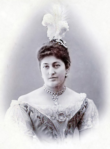 Zarnekau, Agrippina (1855-1927), nee Japaridze